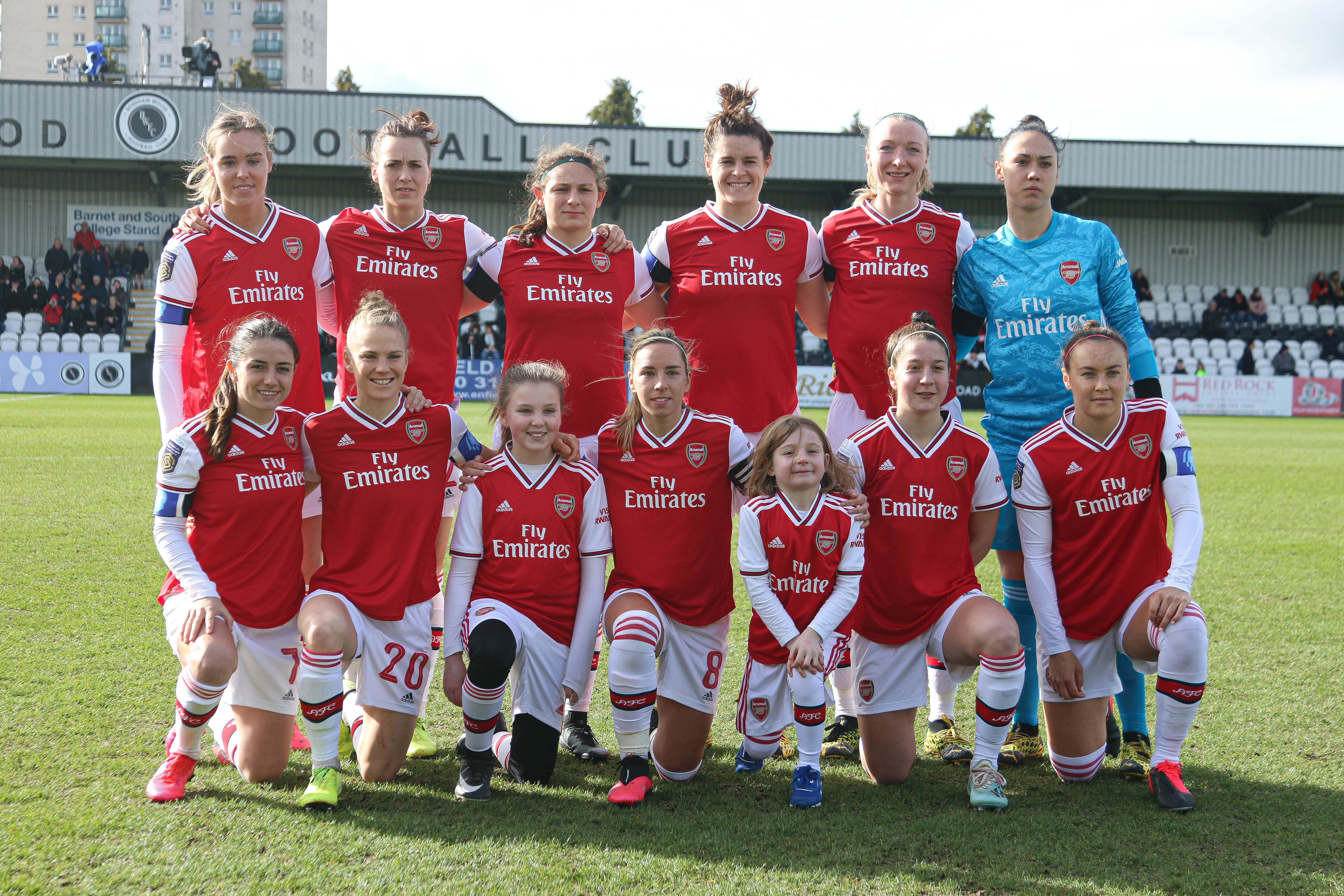 Arsenal WFC – Lewes L.F.C., 23 February 2020